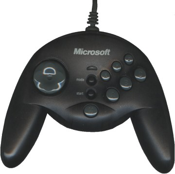 Microsoft Sidewinder game controller, scan by wS for wikipedia